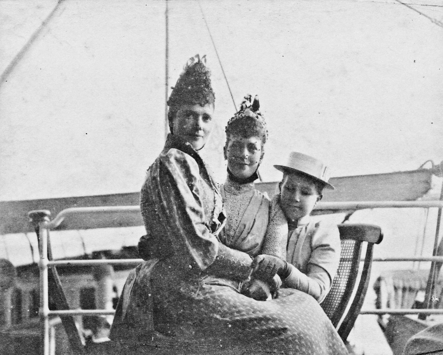 An informal family photograph of sisters Marie Feodrovna, Dagmar of Denmark (1847-1928) and Alexandra of Denmark (1844-1925) and their niece Maria of Greece (1876-1940). Probably taken on the Royal Yacht near Denmark. Cyfrwng/Medium: Black and White Print